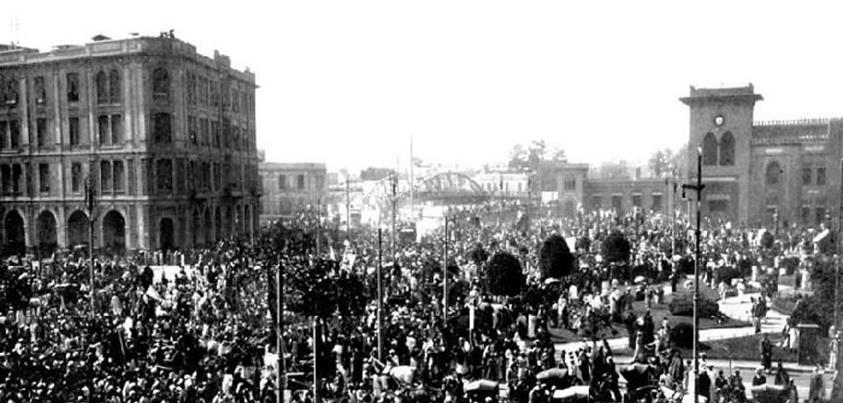 Ramses Station During the 1919 revolution